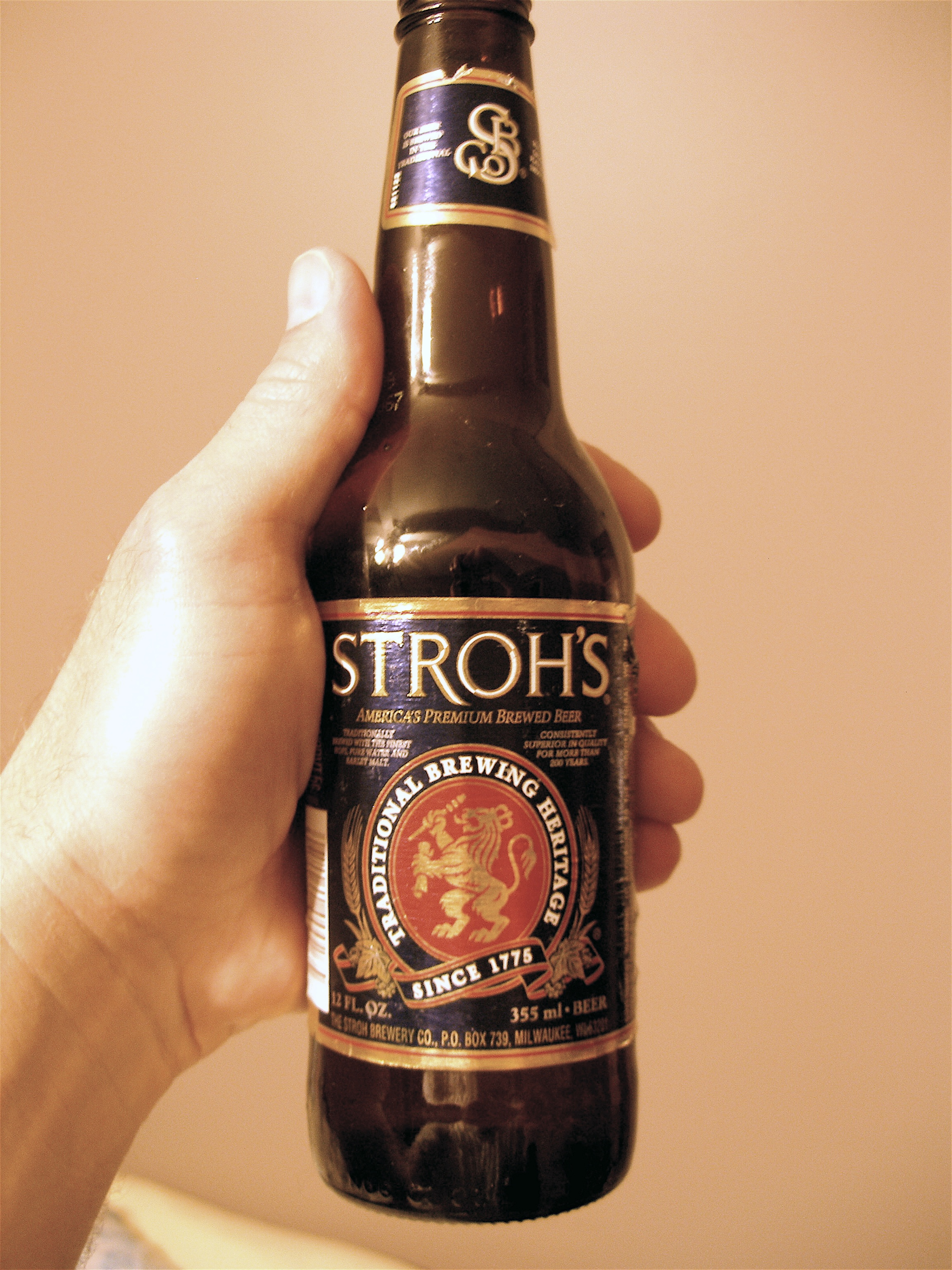 A 12-U.S. fluid ounce (12.5 imp fl oz; 355 mL) bottle of Stroh's.